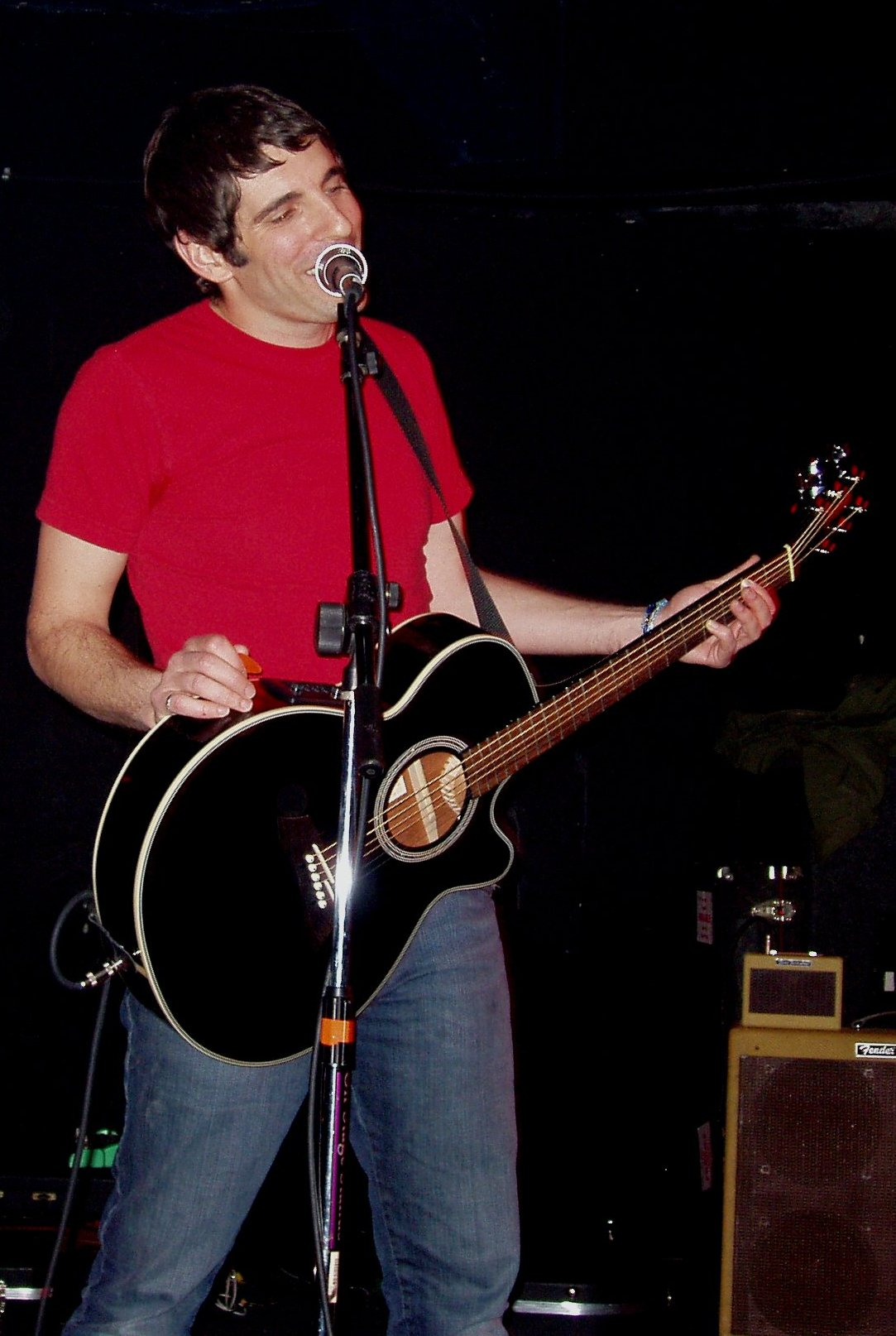 Jonah Matranga. I took this picture at a club in Baltimore MD in either Feb. or March of 2006. - burntvinyl